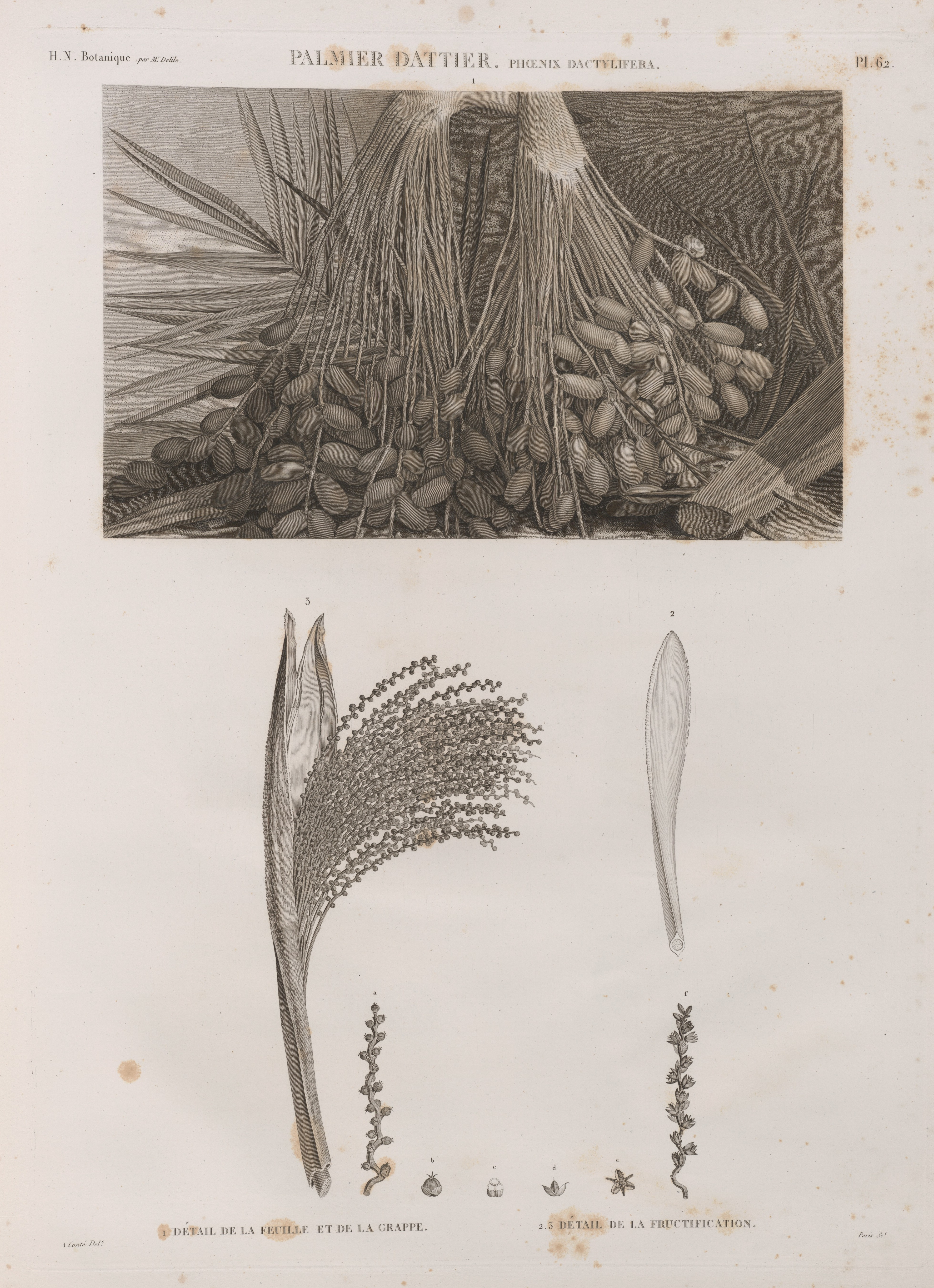 Botanique. Palmier dattier (Phoenix dactylifera). 1. Détail de la feuille et de la grappe; 2.3. Détail de la fructification.